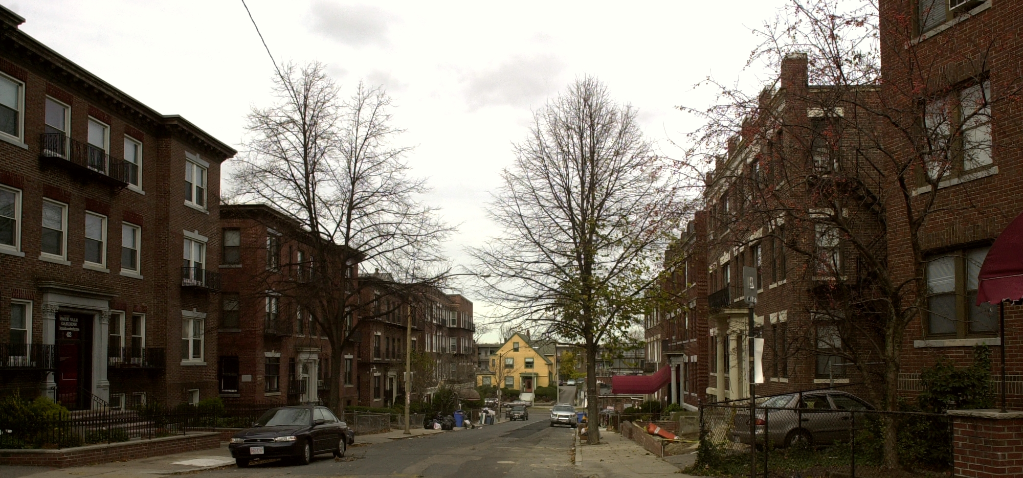 View north on Park Vale Avenue toward Brighton Avenue in the Harvard Avenue Historic District, Allston (Boston), MA